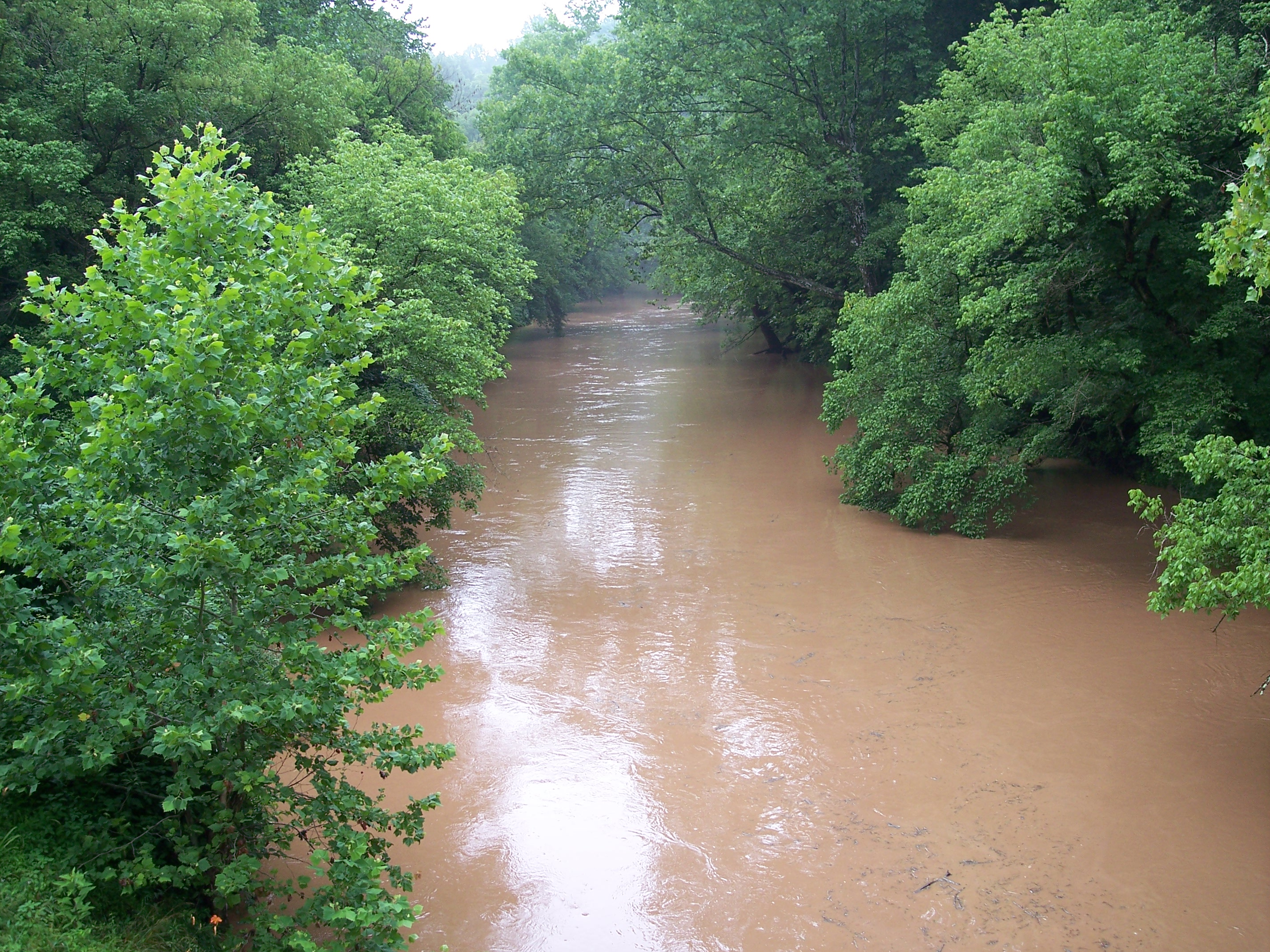 The North Fork of the Hughes River, as viewed from a bridge on the North Bend Rail Trail east of Cairo, West Virginia